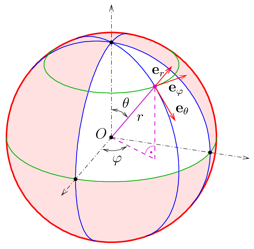 Spherical coordinates: local base